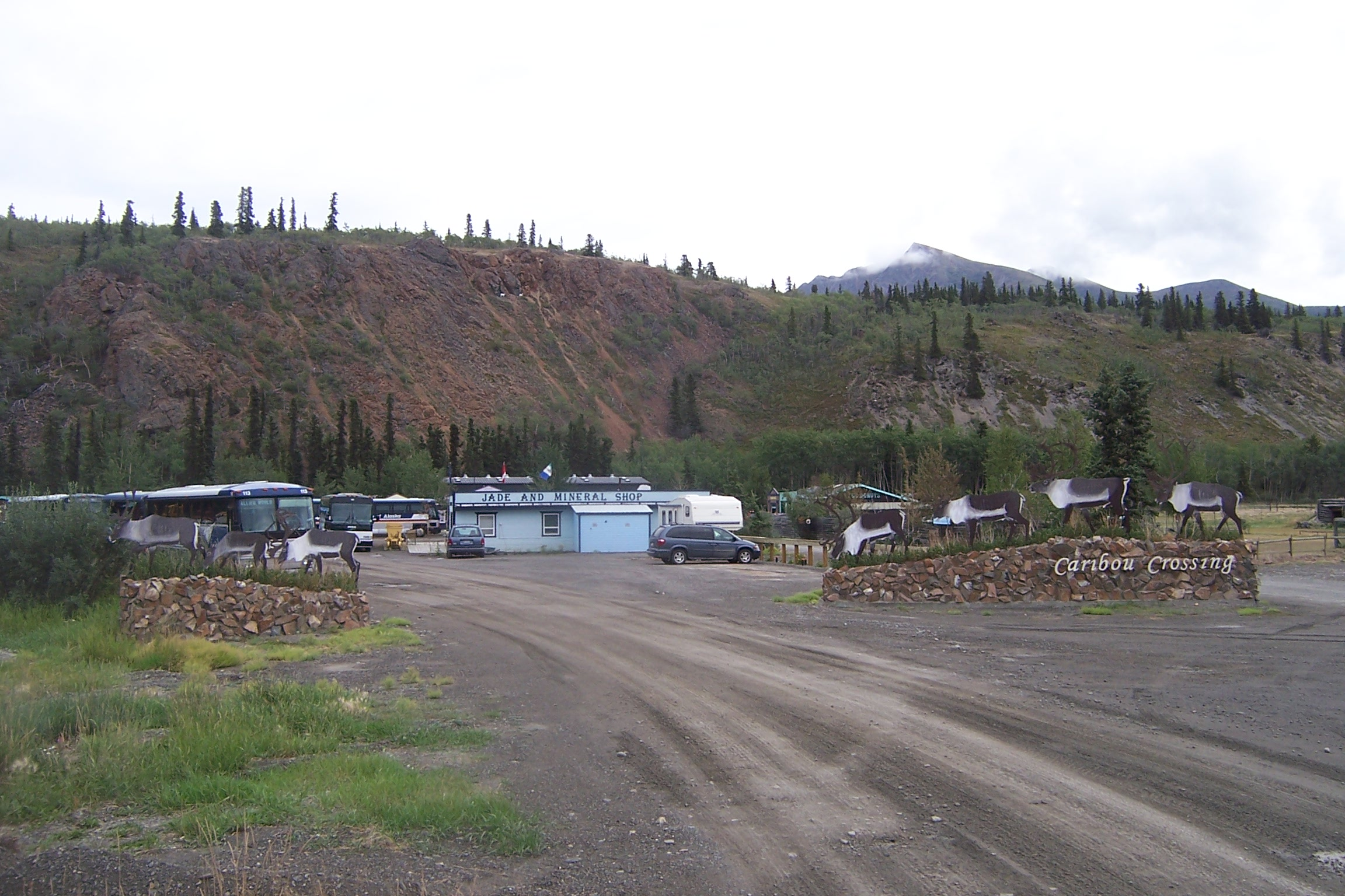 A tour bus tourist stop destination in the Carcross, Yukon area. Serves meals to many, has 'natural history museum', gift shops, activities, etc. NB The two white "mountain goats" up on the hill are fake.